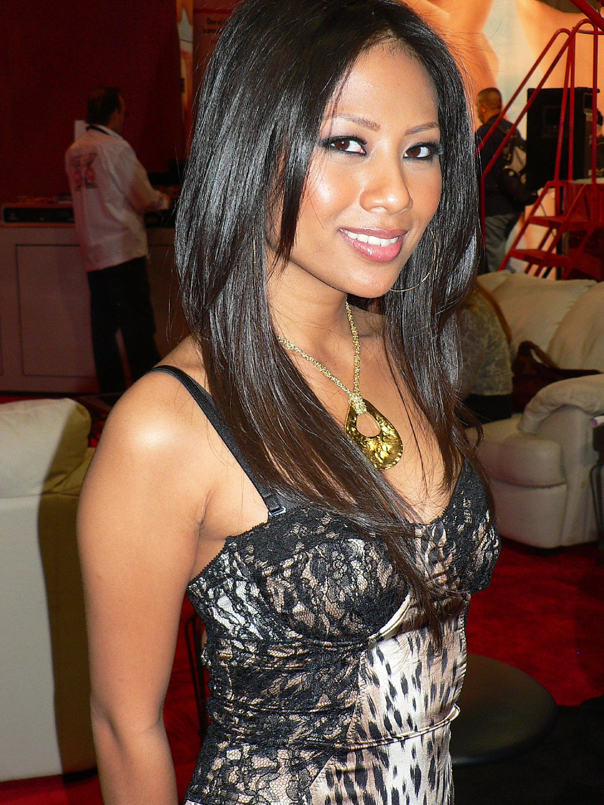 Of Indonesian descent, Nyomi Marcela greets her fans at this year's AEE.Nyomi Marcela